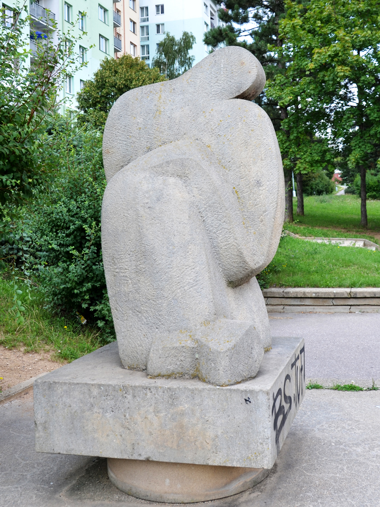 Sitting female figure by Czech sculptor Zdeněk Palcr (1988), Brno